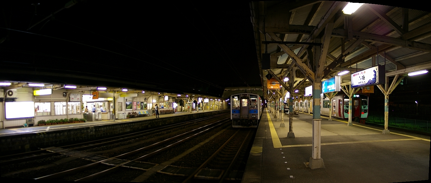 View of Yatsushiro Station